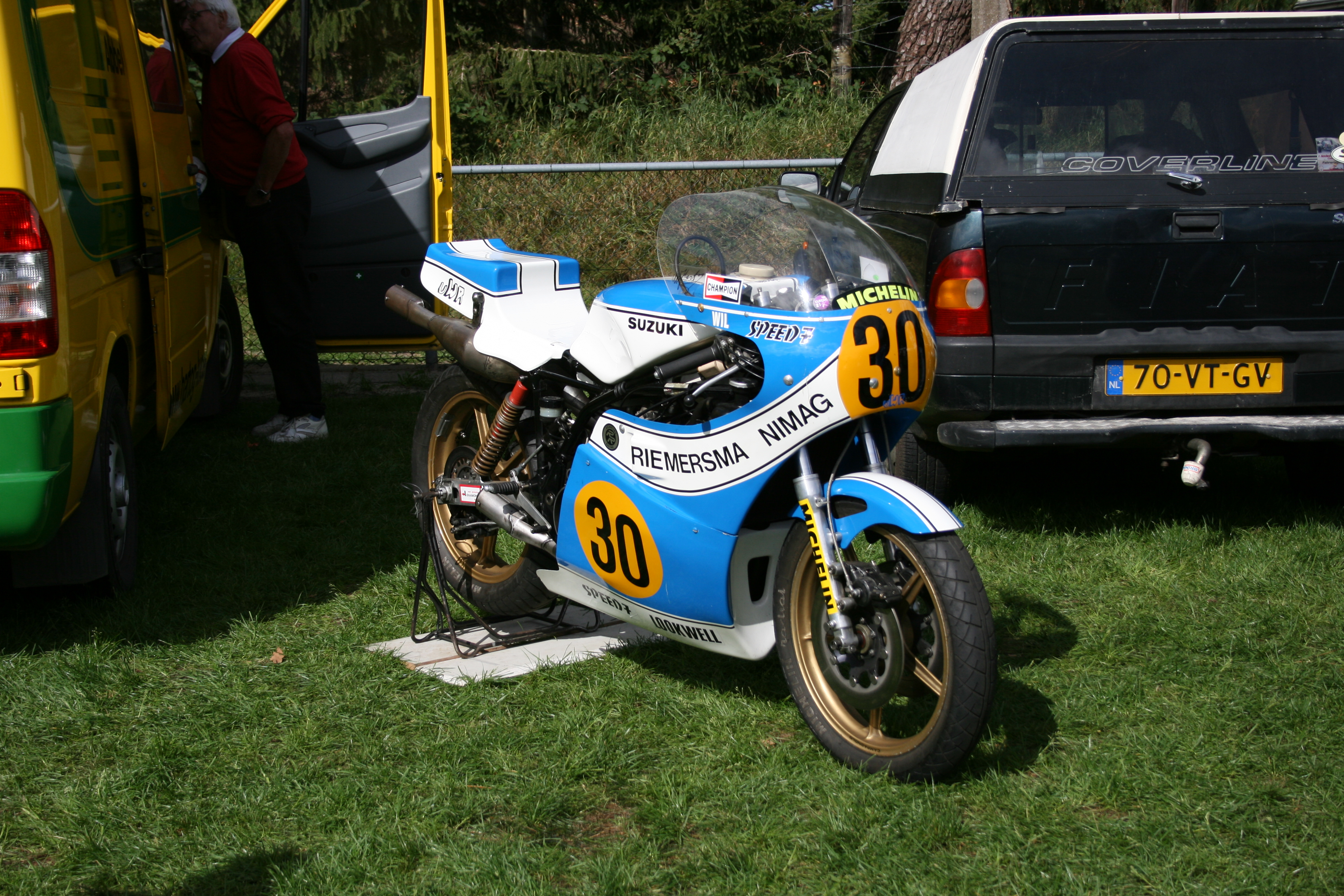 The motorcycle used by Wil Hartog to win the TT.